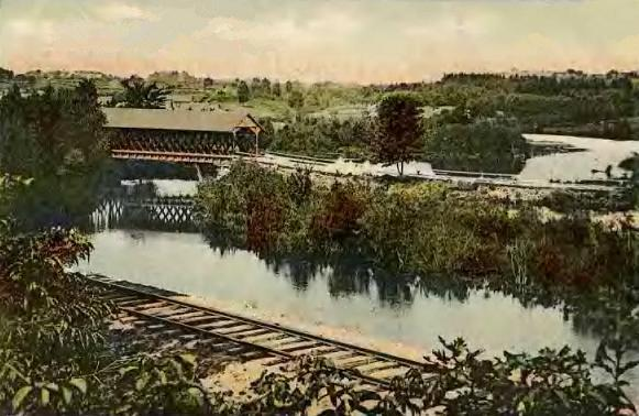 Suncook River in 1908, Pittsfield, NH; from an old postcard.